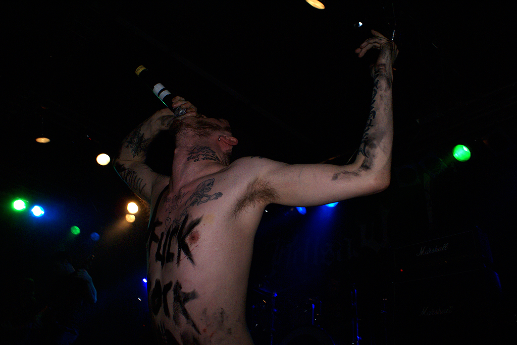 Niklas Kvarforth of Shining.